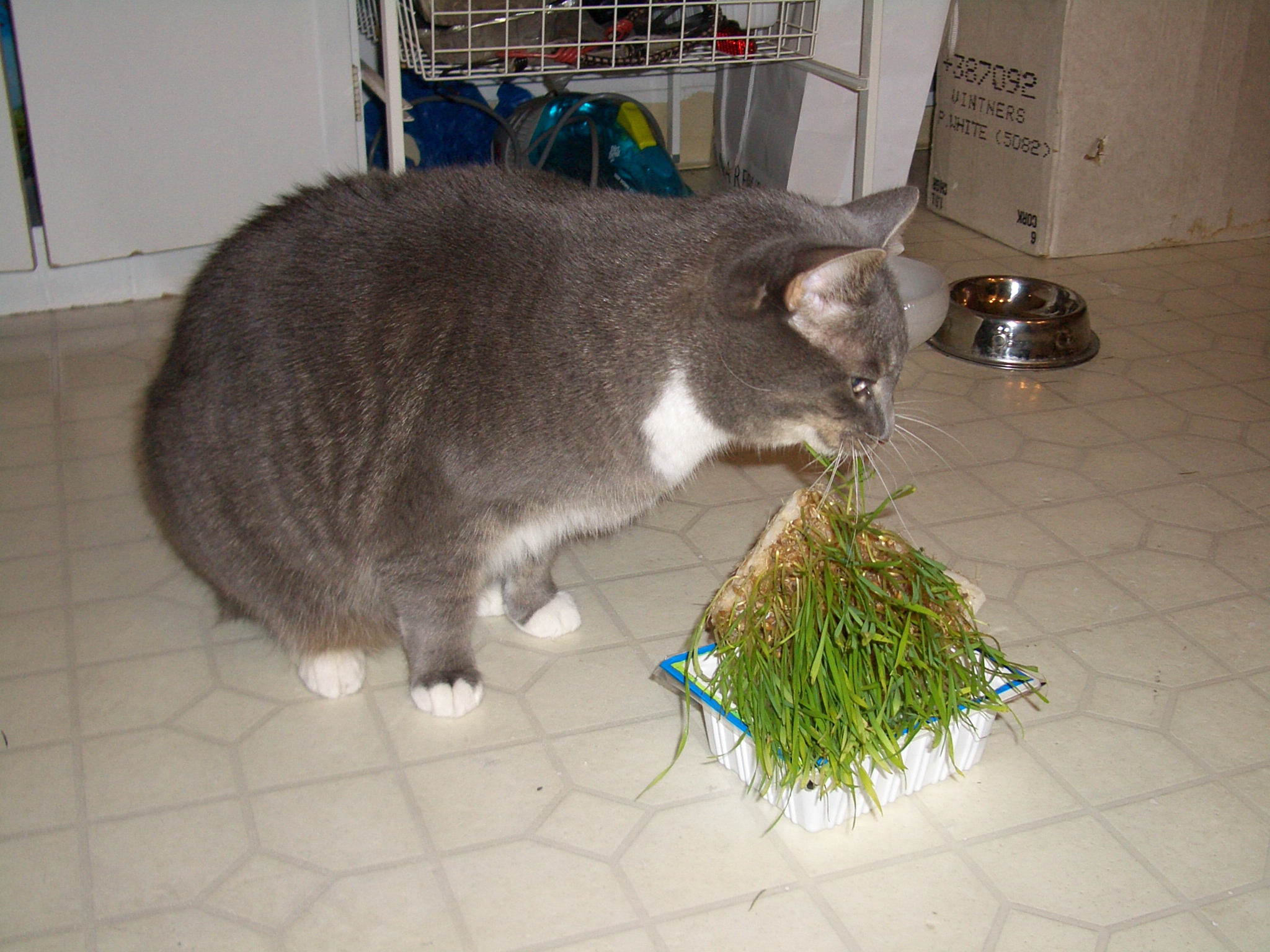 Chloë the cat enjoys a bit of wheatgrass